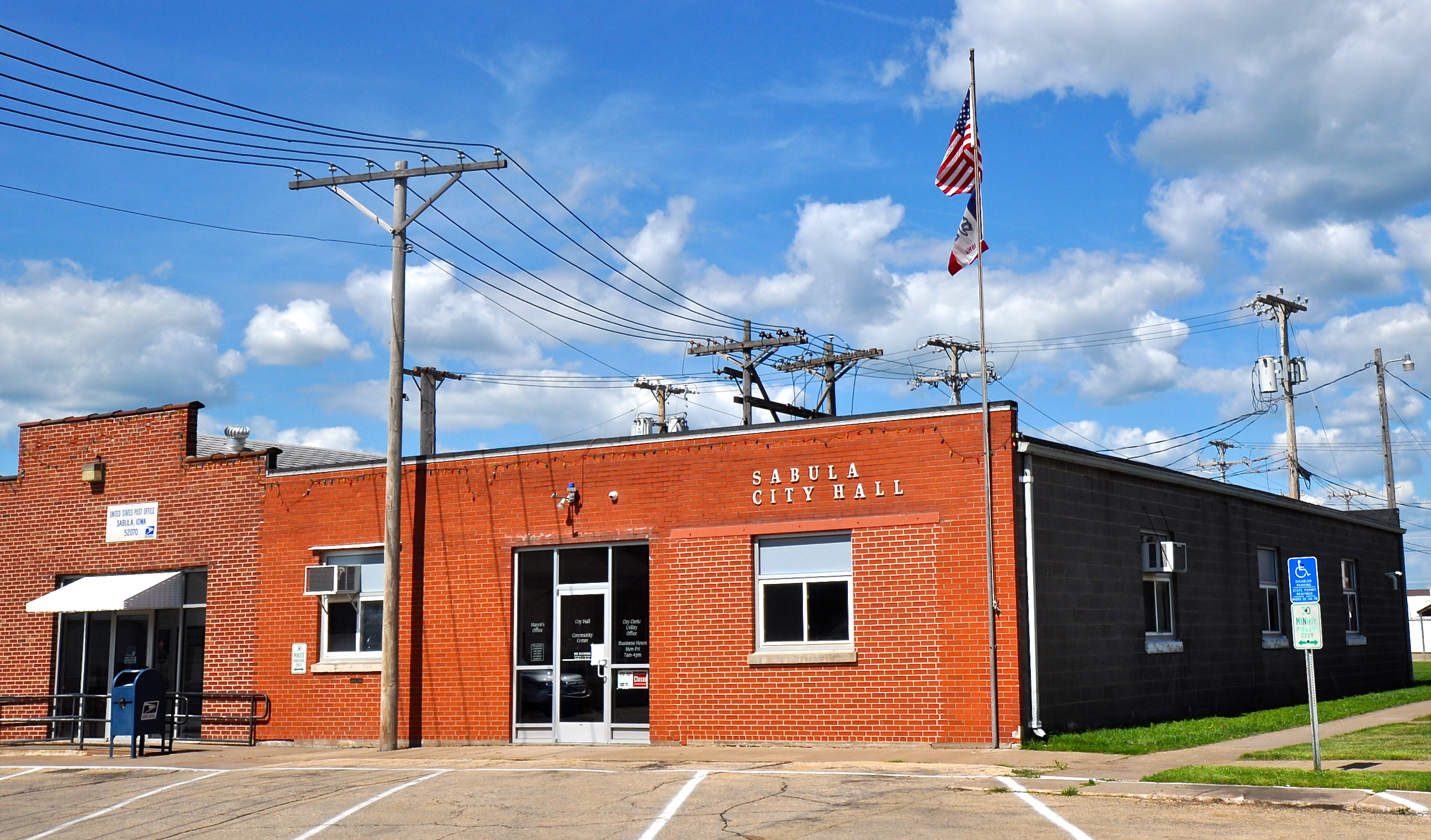 Sabula City Hall located at Sabula, Jackson County, Iowa. At left is the city post office.